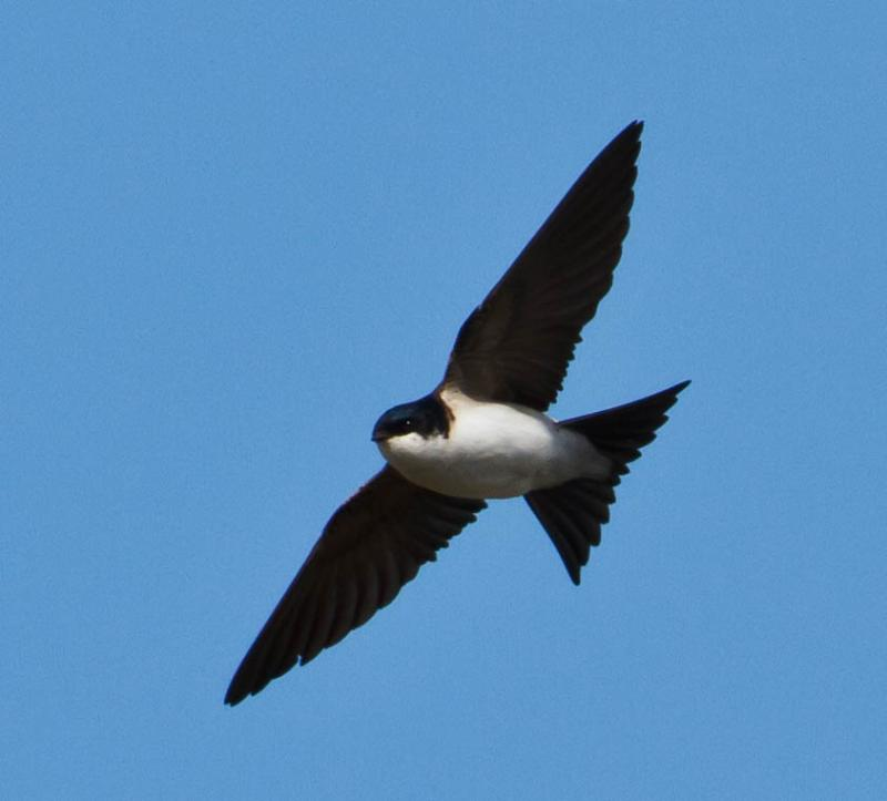 A Common House Martin Delichon urbicum flying near Reykjavik, Iceland.